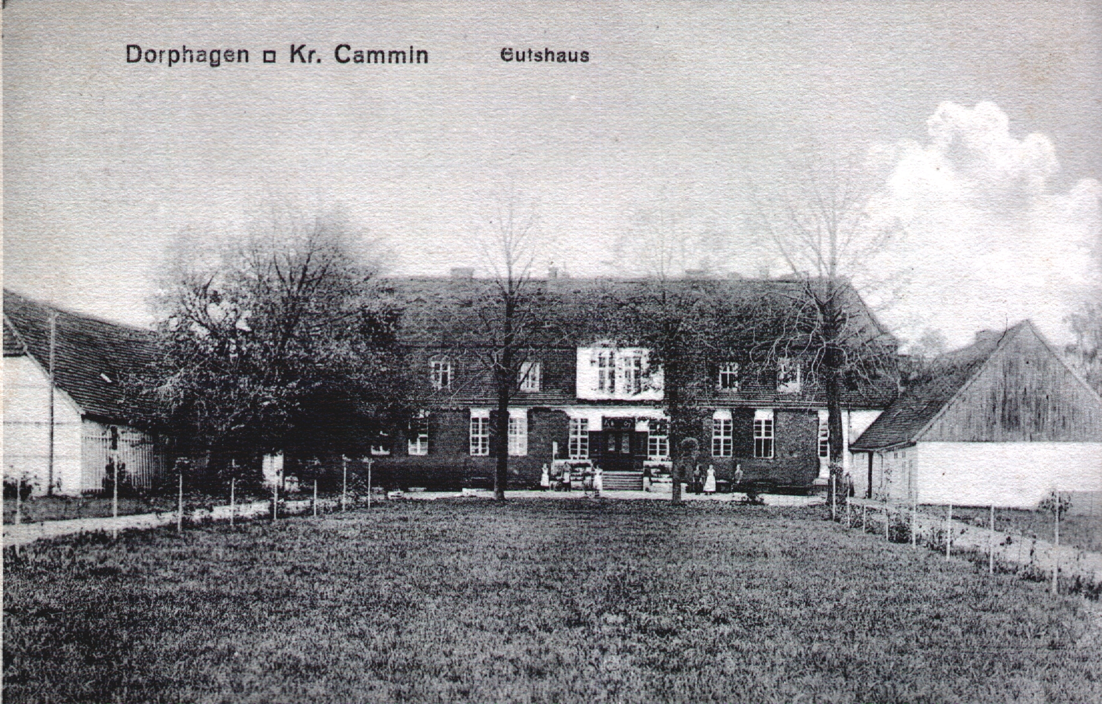 Garden at a Manor house in Mechowo, the West Pomeranian Voivodeship, Poland.